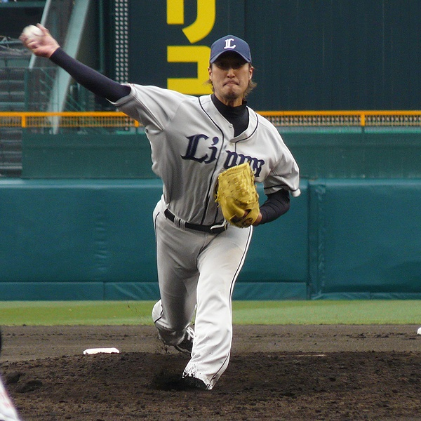 Taiyo Fujita, pitcher of the Saitama Seibu Lions, at Hanshin Koshien Stadium.